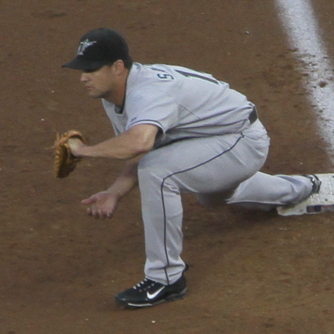 Gaby Sanchez